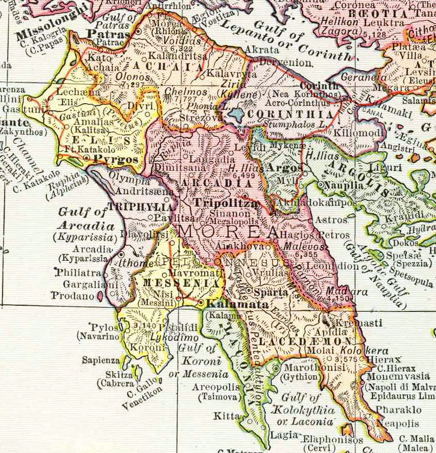 Map of the Kingdom of Greece, the Cretan State and the Principality of Samos in 1903. It displays the greek railway network as it was in 1900-1901.